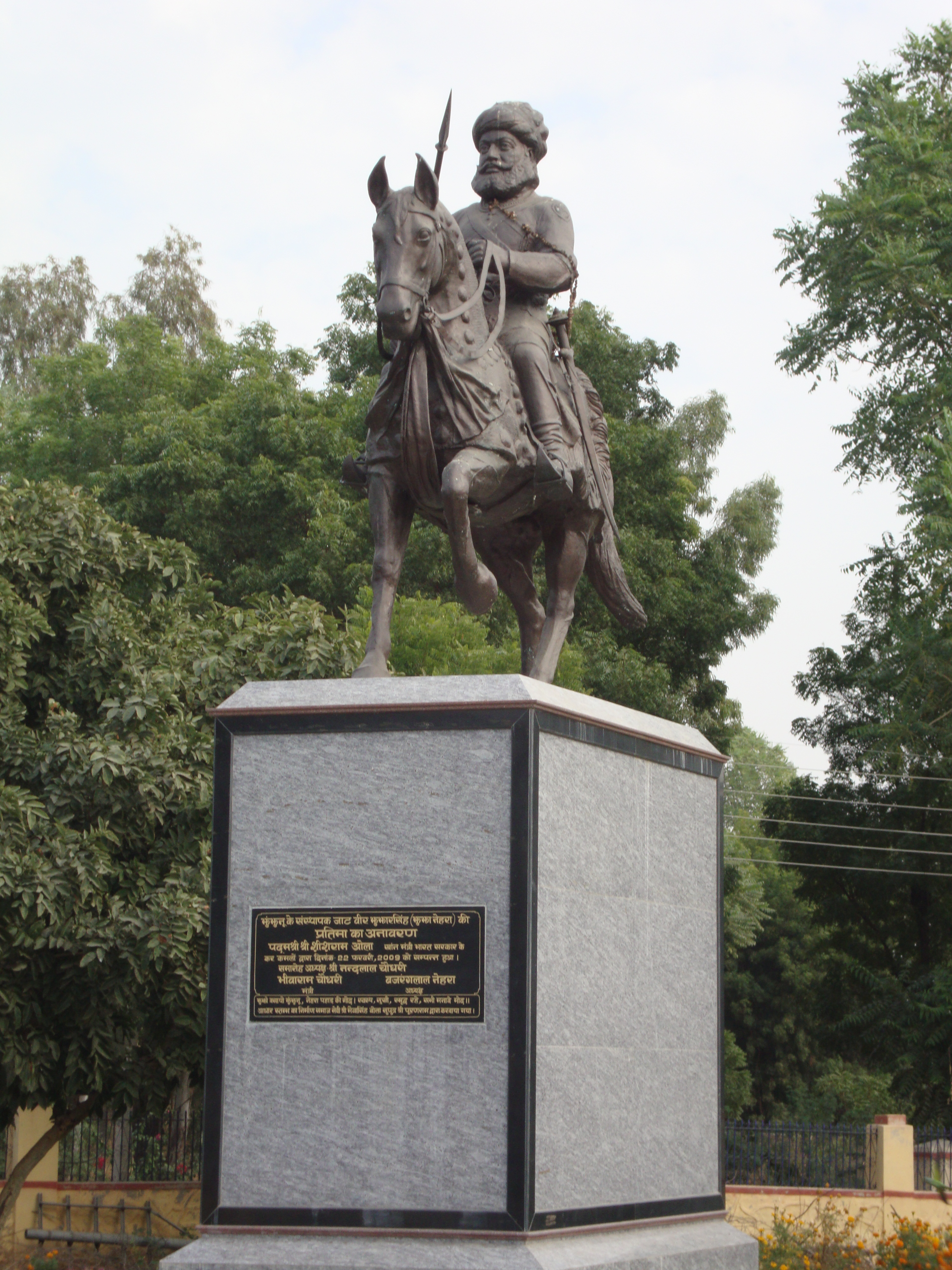 Statue of Jujhar Singh Nehra, founder of Jhunjhunu town in Rajasthan.